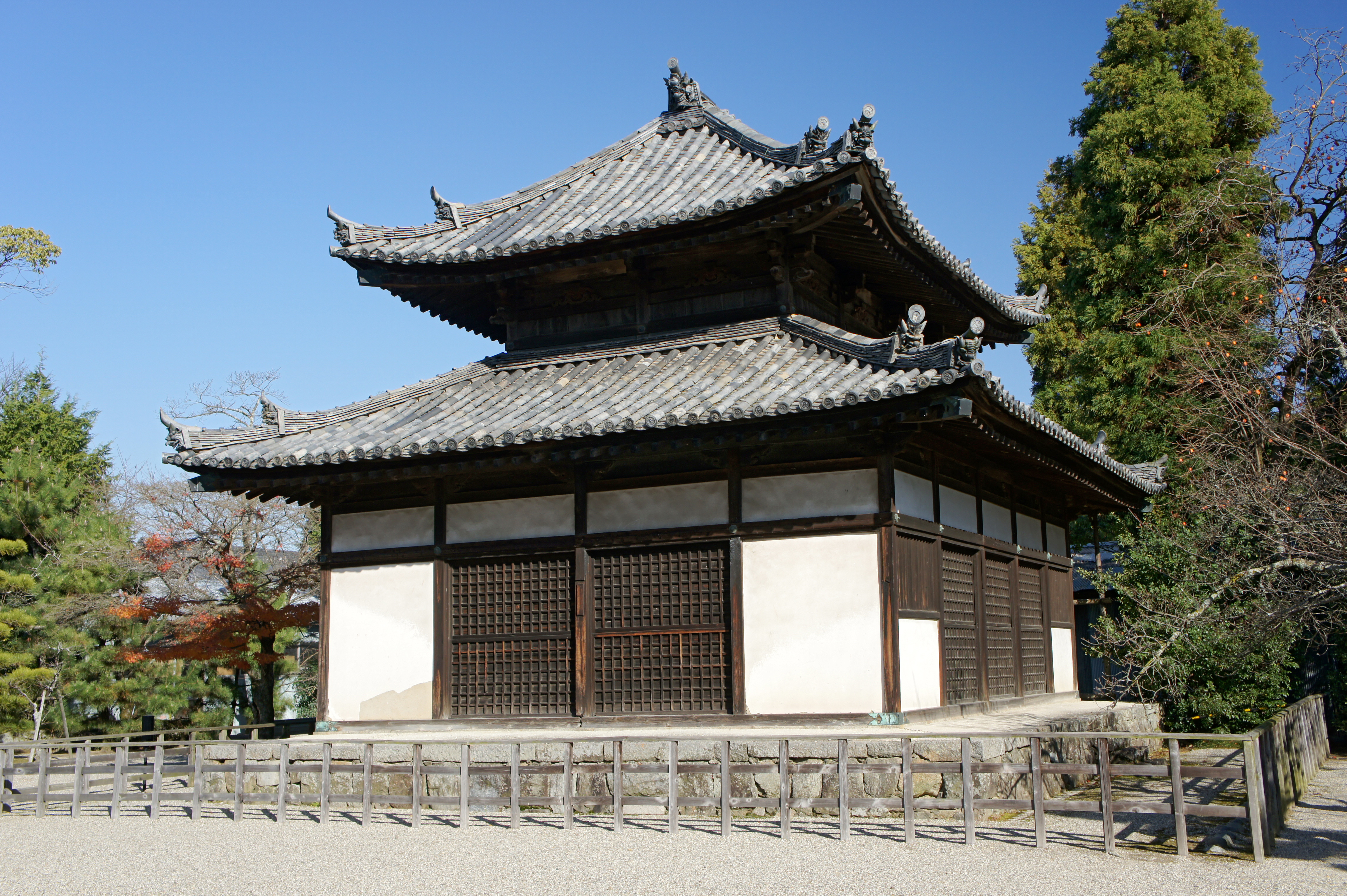 Hōrin-ji is a Buddhist temple in Ikaruga, Nara prefecture, Japan.